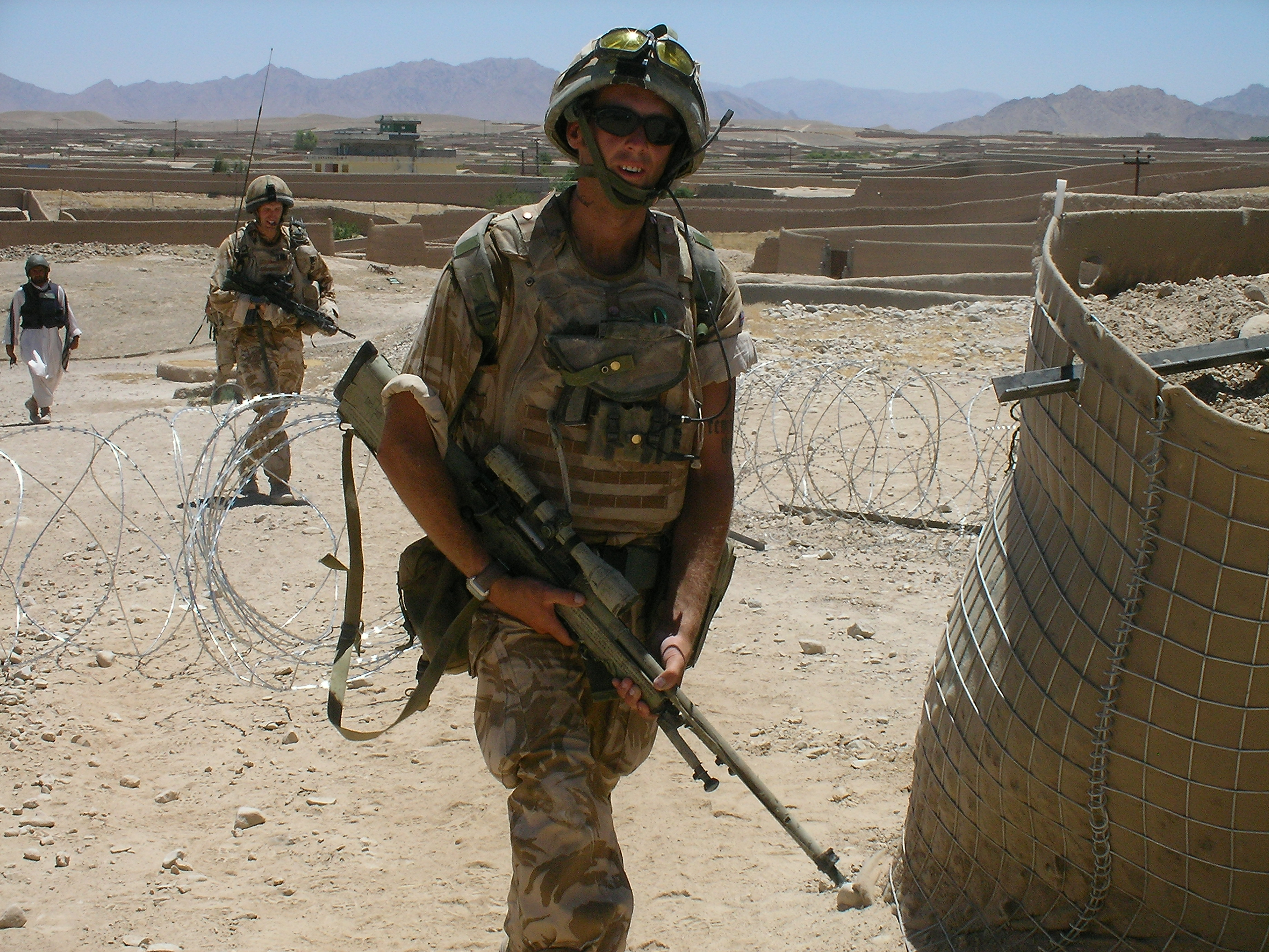 Anglians Helmand 2